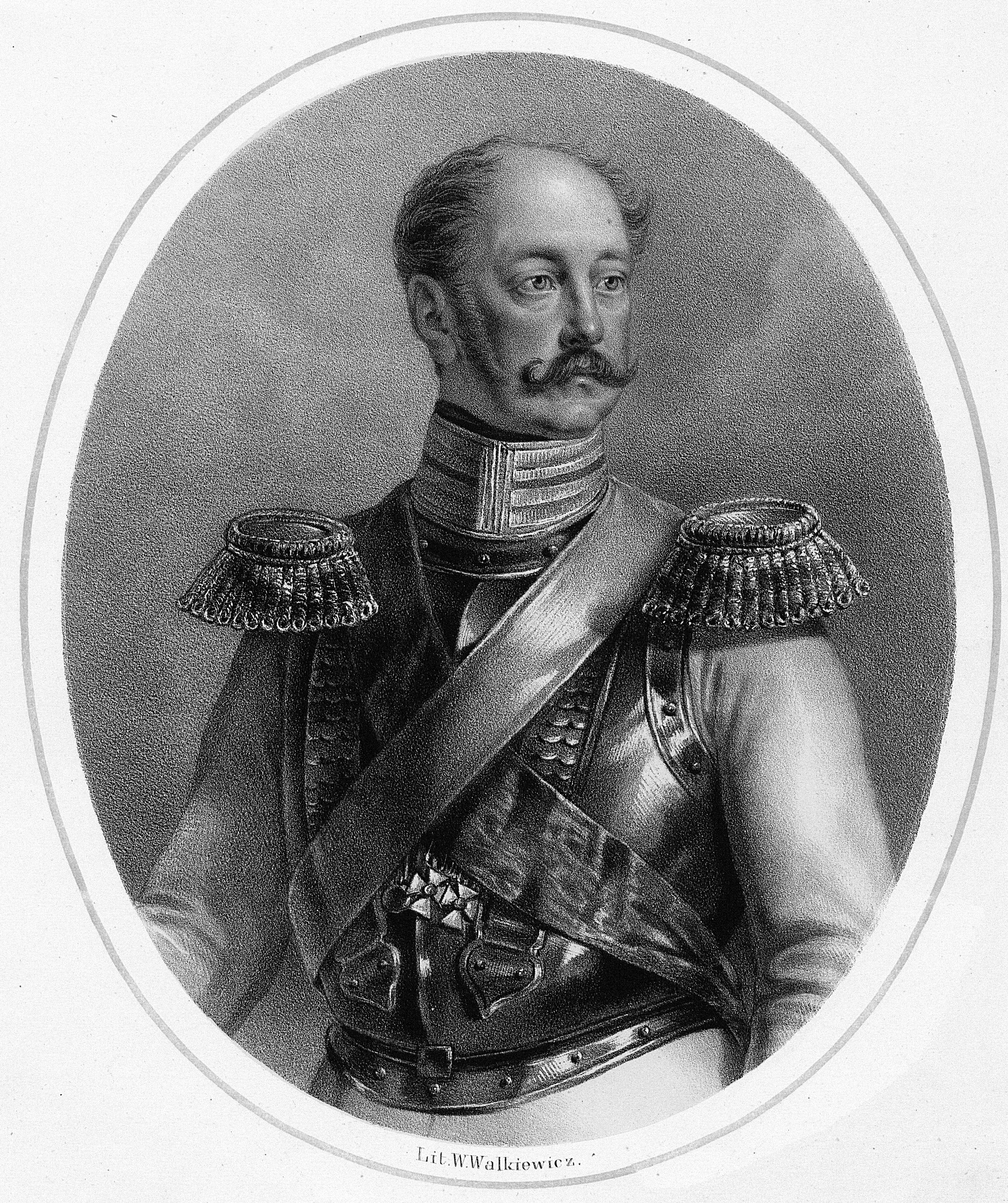 Nicholas I, Emperor of Russia